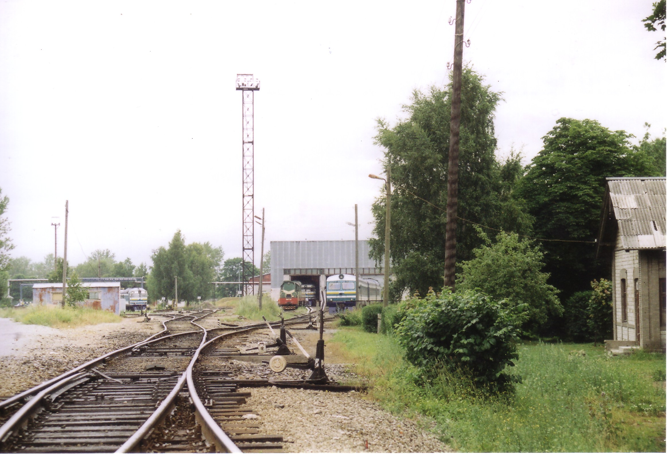 Tallinn-Väike depot, Estonia